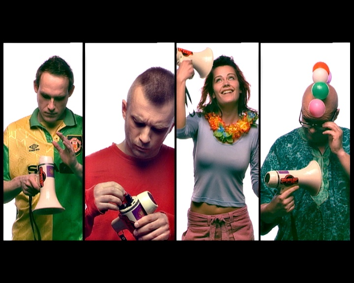 Taken from the video Ar Tai Butum Tu?